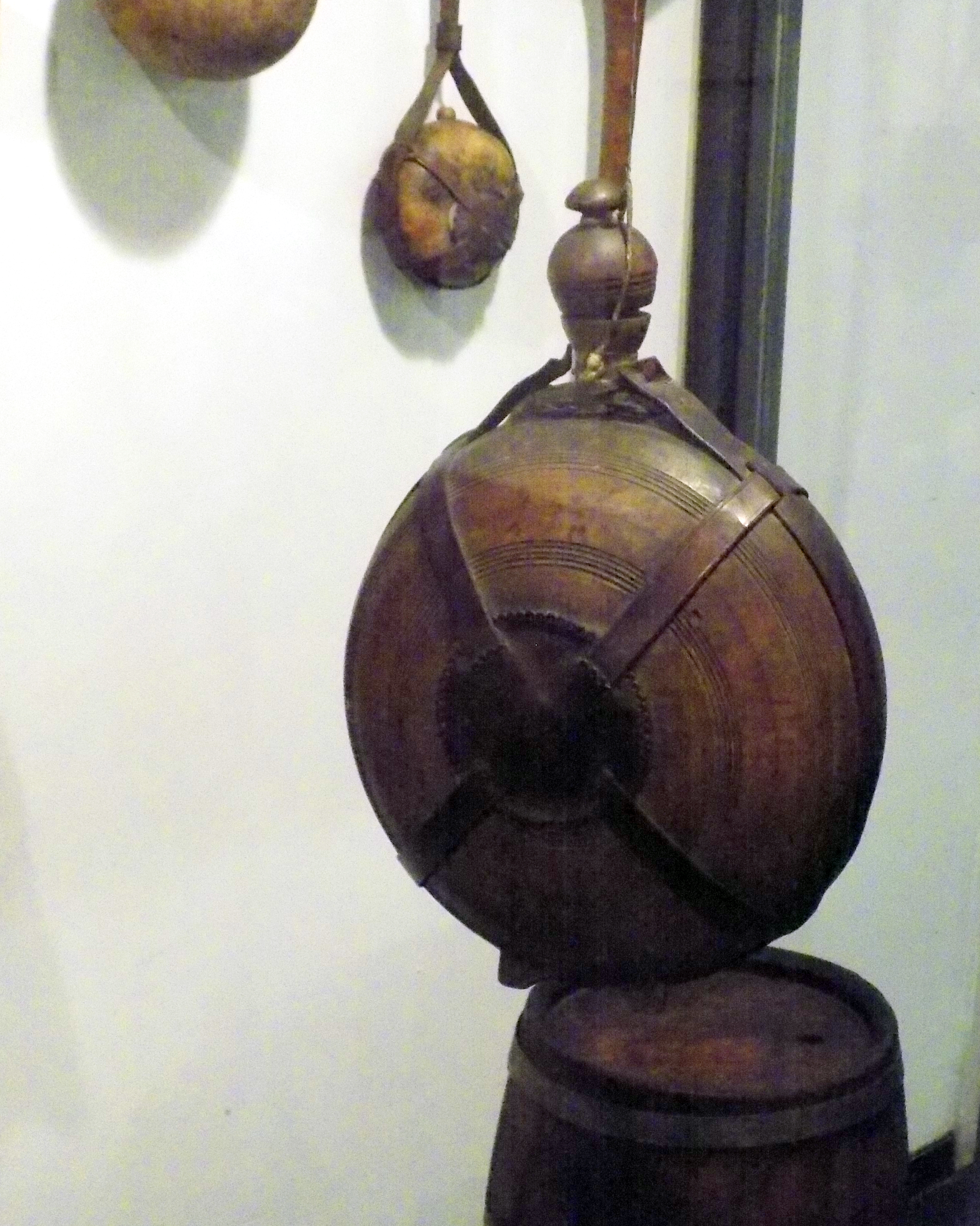 Traditional Serbian wooden canteen (Etnographic Museum in Belgrade)